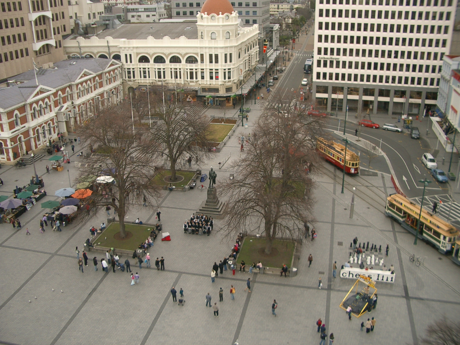 A view of Cathedral Square, Christchurch, New Zealand from the ChristChurch Cathedral. Some buildings, including the Regent Theatre building (with the dome), were damaged by earthquake in 2011 and demolished.